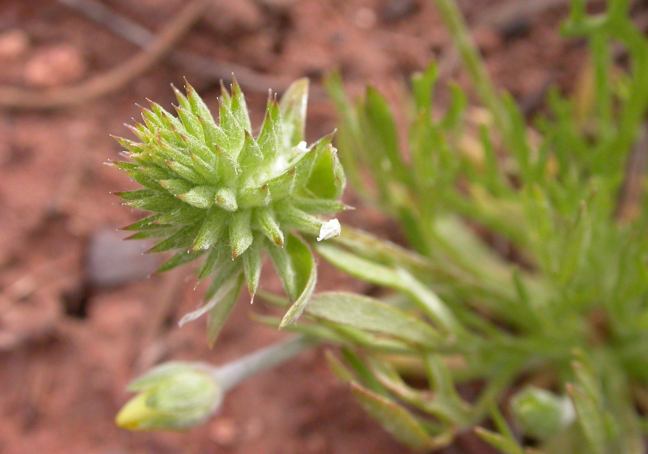 Ceratocephala testiculata (curveseed butterwort) Northeast of Valle, Arizona. Species is a non-native weed.